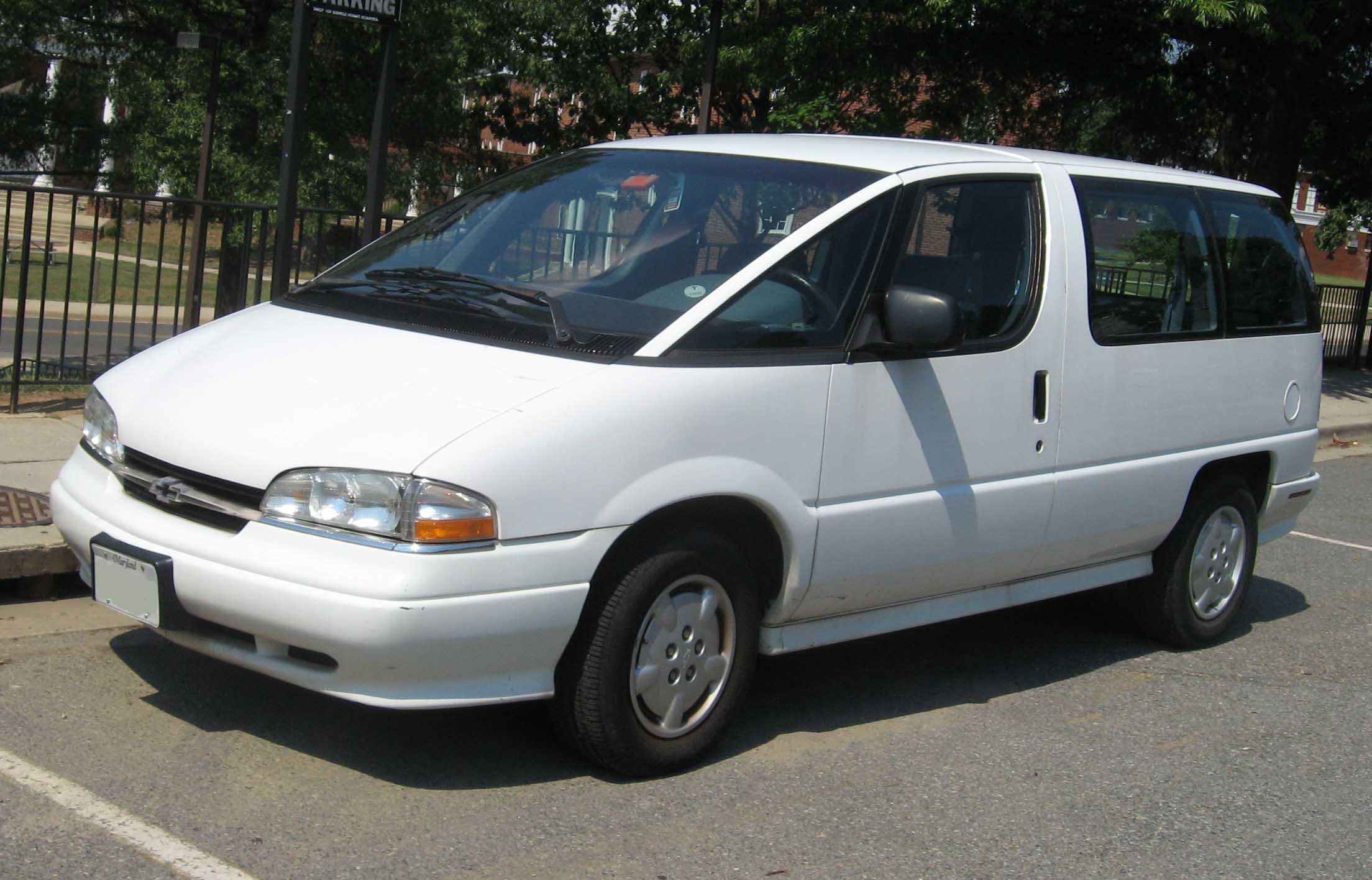 1994-1996 Chevrolet Lumina APV photographed in USA.